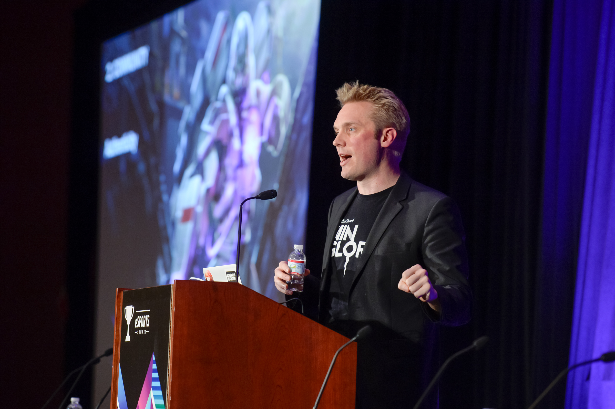 'The Vainglory Story' - 5 Lessons From Building a Touch Screen eSport Kristian Segerstrale | COO and Executive Director, Super Evil Megacorp Location: Room 2020, West Hall Date: Tuesday, March 15 Time: 3:50pm - 4:20pm